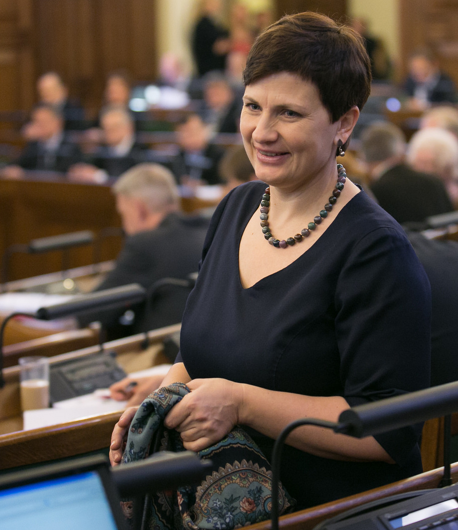 Ilze Viņķele in Parliament 2014